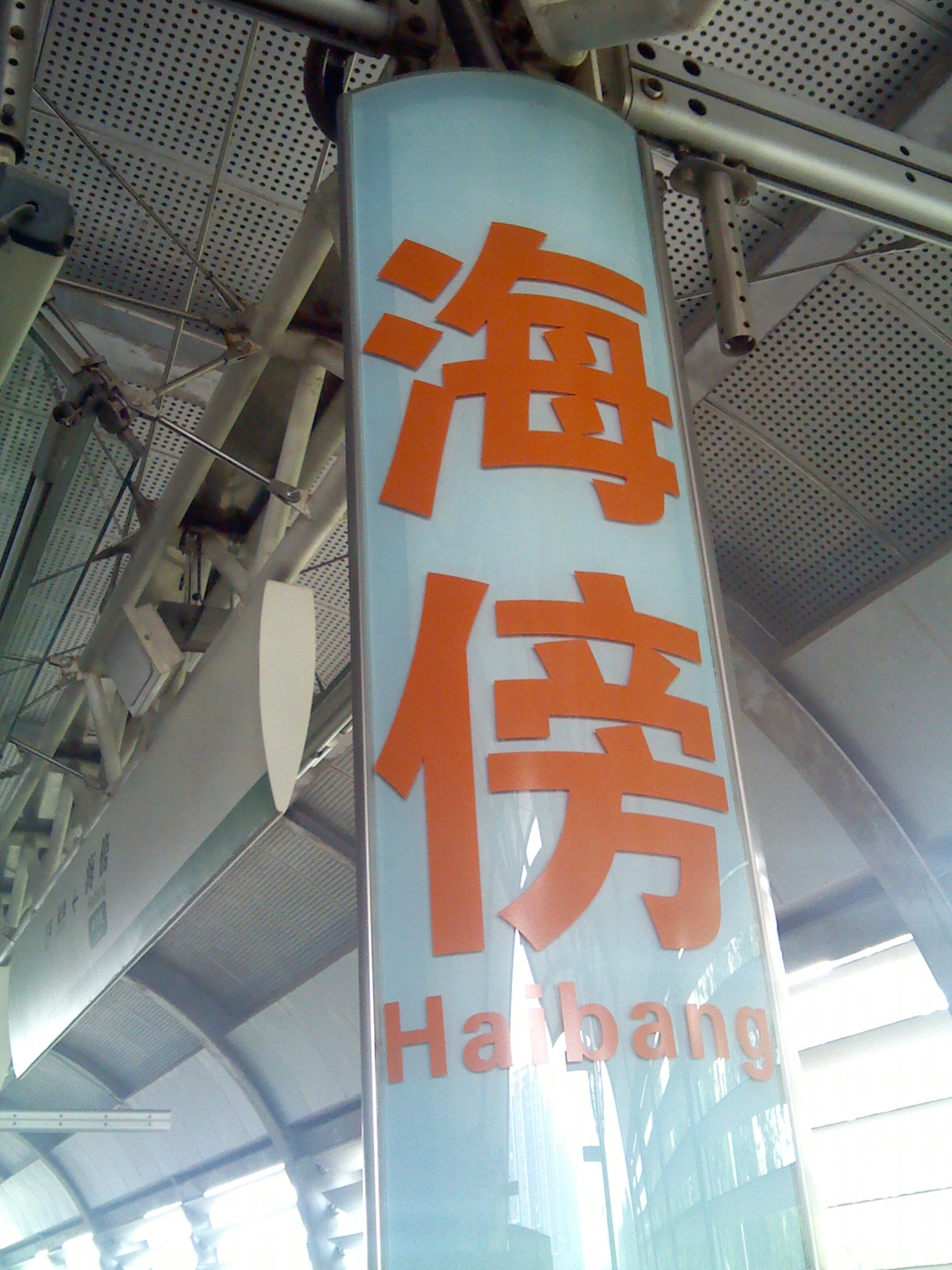 海傍站柱子上的站名